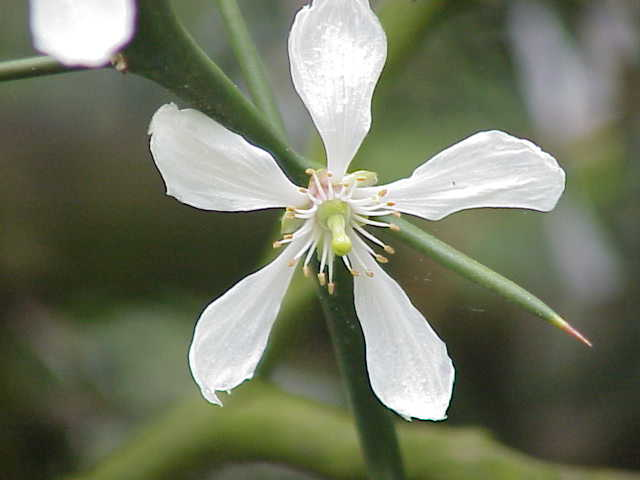 Species: Poncirus trifoliata Family: Image No. 1